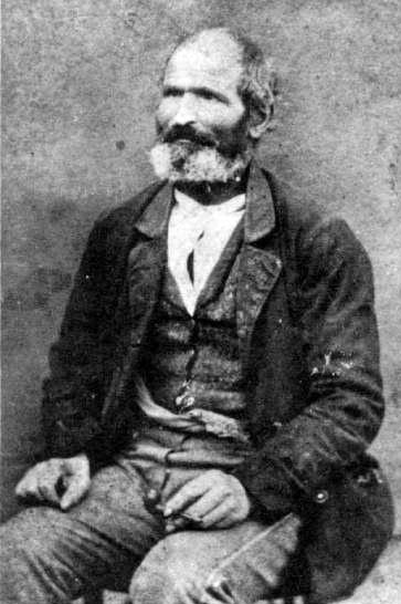 Juan Ruiz Diaz Garayo Argandoña, better known as The Sacamantecas (San Millán, Álava, July 9, 1821 - Vitoria, May 11, 1881) was a serial murderer who was born and lived in Álava, Spain, in nineteenth century.